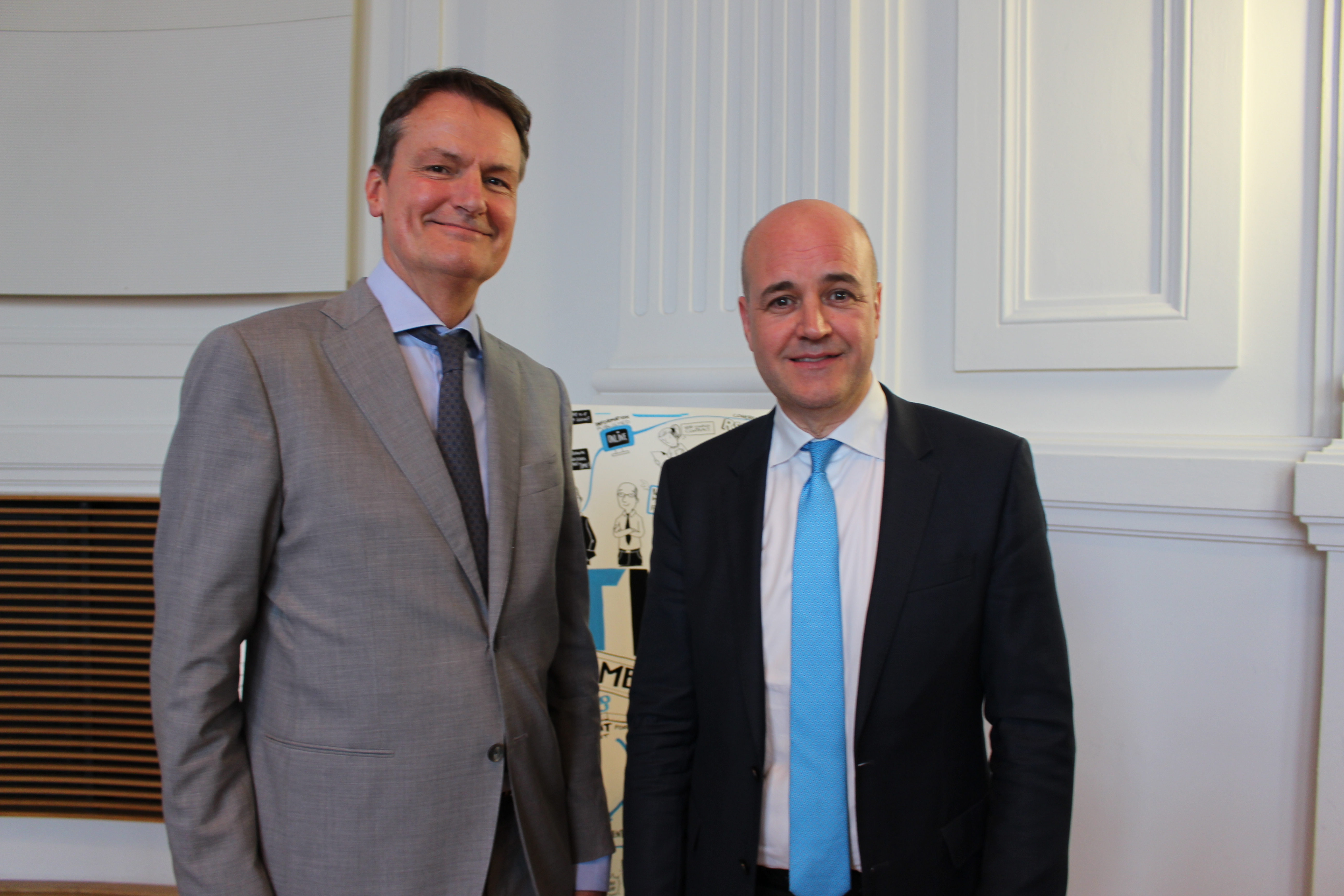 Wepke Kingma, Dutch ambassador in Berlin and Fredrik Reinfeldt, EITI Chair 28-29 June 2018 At the German Ministry of Economy and Energy (BMWi) Find out more